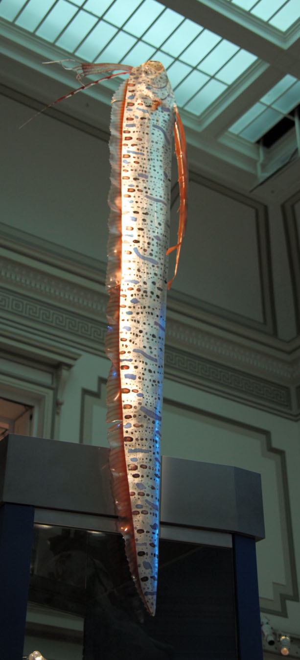 Model of an oarfish (Regalecus glesne) at the Sant Hall of Oceans at the Smithsonian Museum of Natural History in Washington, D.C. The oarfish is a deep ocean fish that has a highly elongated body. It swims primarily by moving its dorsal fin and not its body, and is often seen hanging upright (like it is depicted here) while waiting for prey to be silhouetted by light from above. When oarfish die, they usually come to the surface. This had led to myths about "sea serpents" because the oarfish is so freakish looking. Oarfish are usually about 36 feet (11 metres) long and 600 pounds (272 kg) in weight. They have no teeth, and feed on plankton, small fish, jellyfish and squid. Oarfish are often eaten by dolphins, killer whales, and sharks.